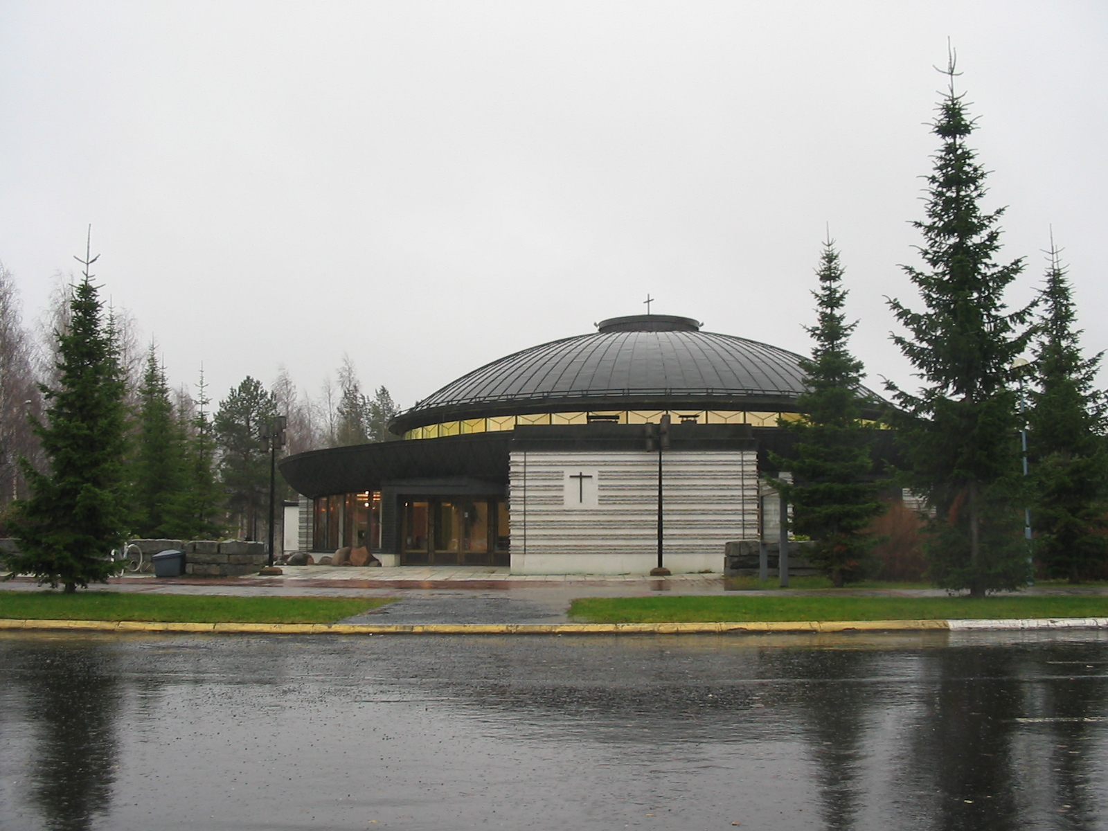 Saint Luke Chapel in Linnanmaa, Oulu, Finland. The chapel has been designed by architects Seppo Kähkönen and Markku Kuhalampi, and it was completed and inaugurated as a church in 1988.